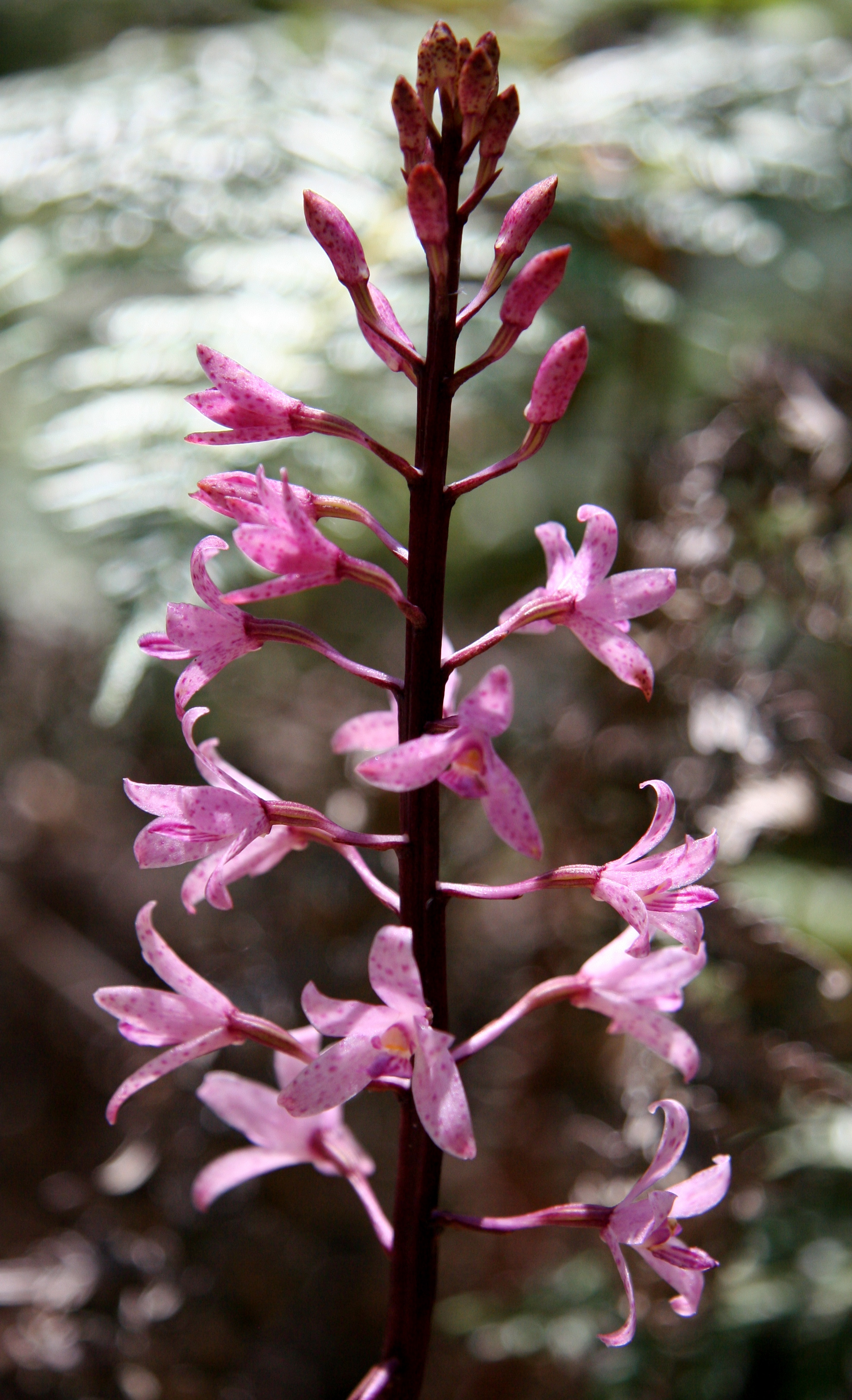 Dipodium roseum - all with unusually shaped stems - one had a definite u-bend! Flowers Dec-Jan. Seen flowering amongst bracken and Messmate gum trees